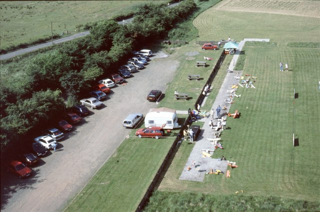 Cumbernauld Model Flying Club This aerial view of Cumbernauld Model Flying Club's field was taken from a model aircraft.